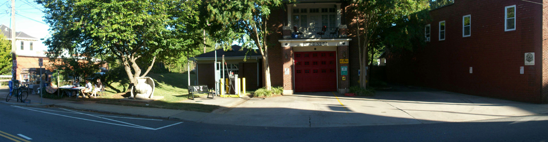 Downtown NoDa (North Charlotte) Historic Firehouse